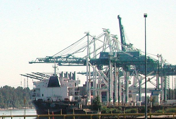 View upstream on the Columbia River from Kelley Point Park in Portland, Oregon. The Port of Portland's Marine Terminal 6.